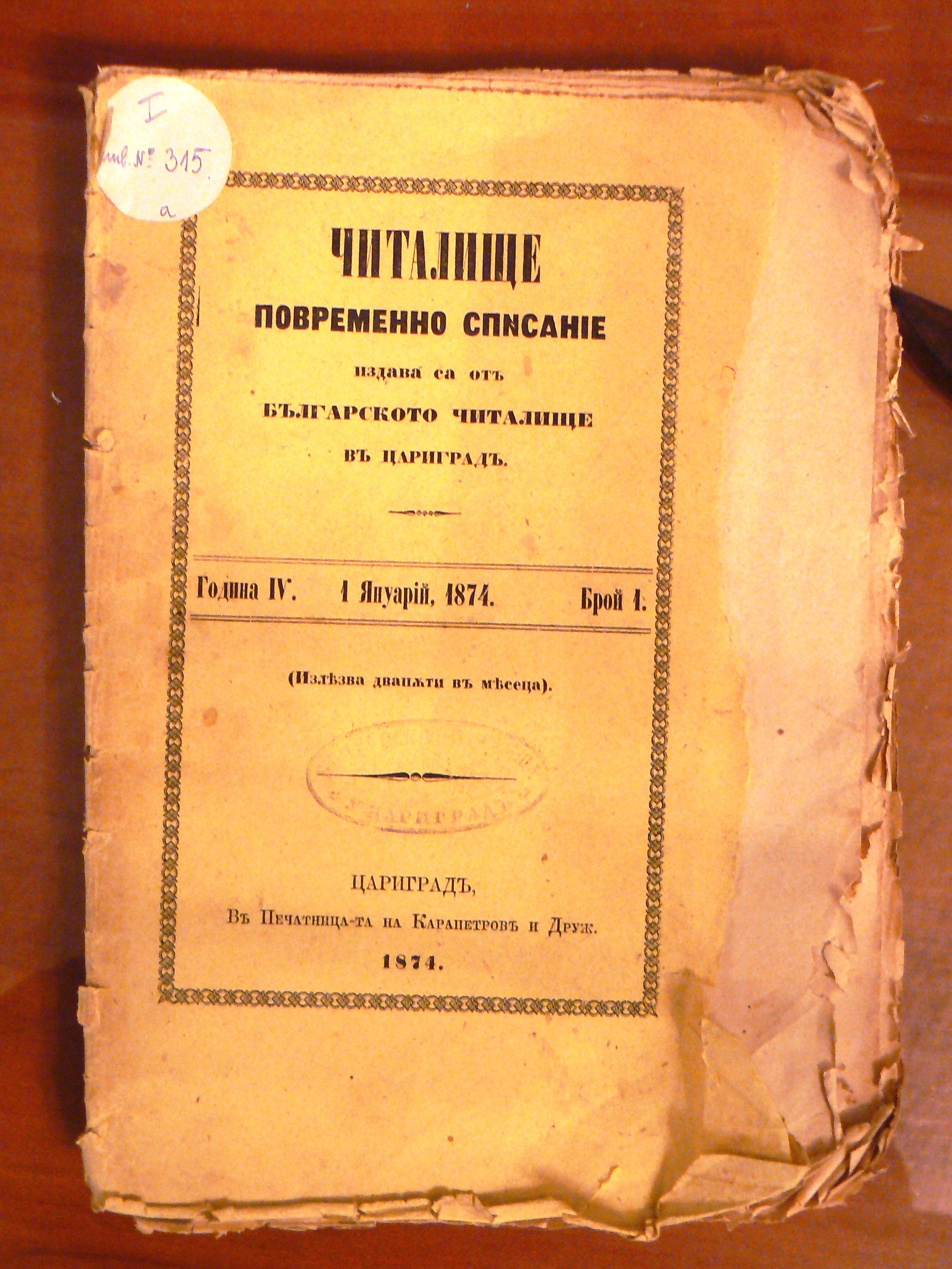 "Chitalishte" Magazine, Year 4, 1 January 1874, Vol. 1. Exhibit of the Perushtitsa History Museum